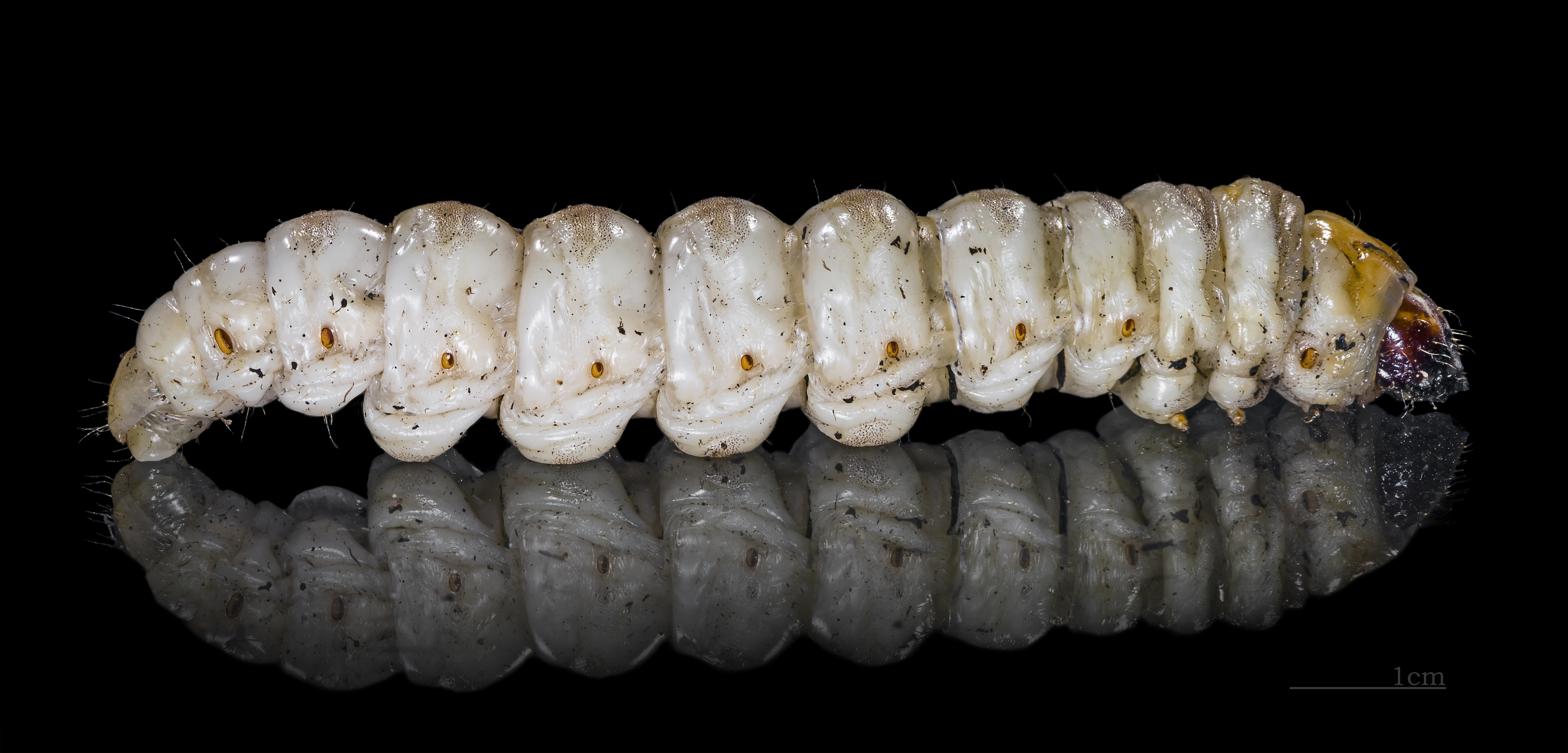 Caterpillar of Paysandisia archon